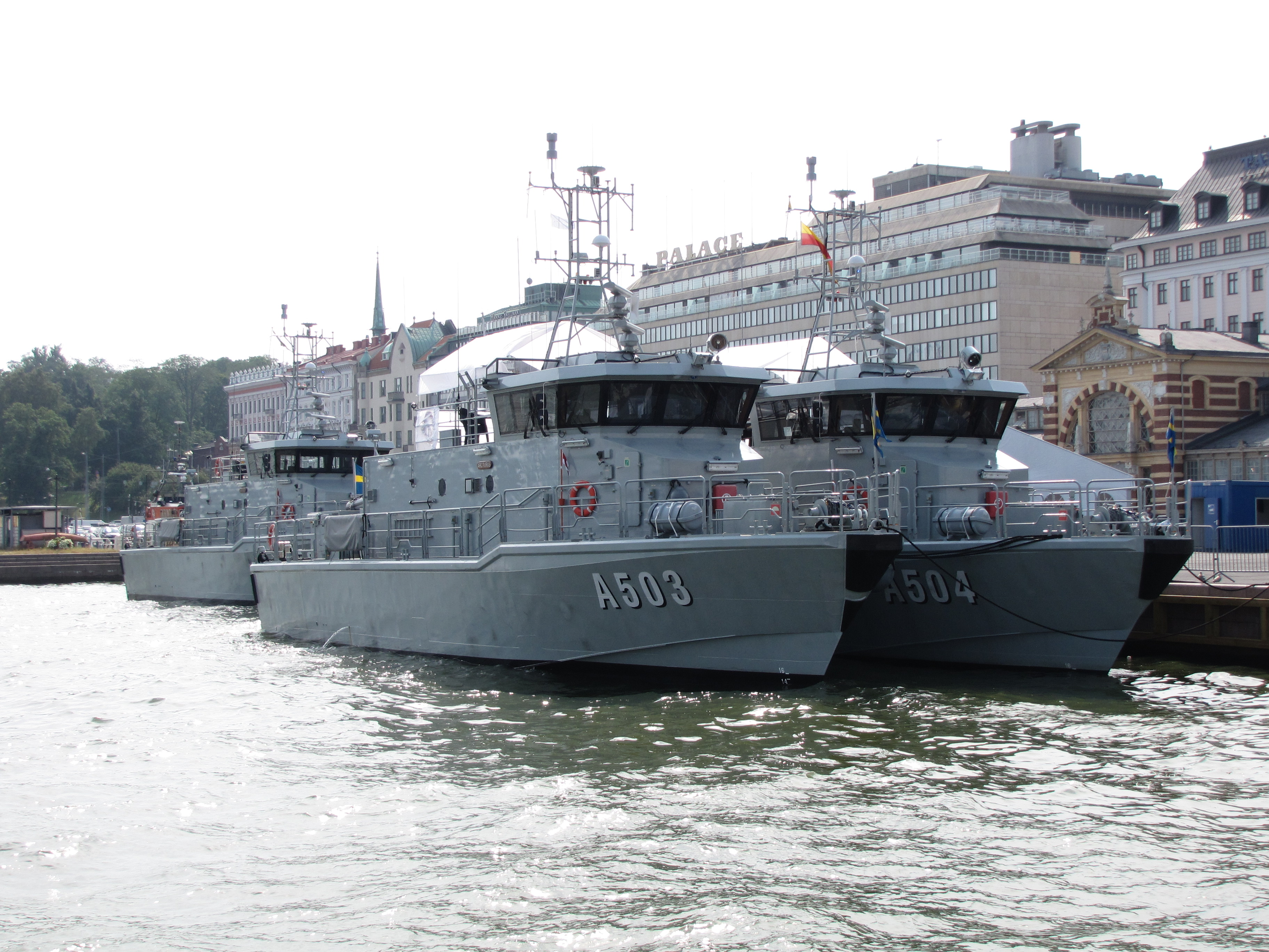 Swedish Altair class training ships Antares (A502), Arcturus (A503) and Argo (A504). Photographed in Helsinki South Harbour during Nordic naval cadet meeting.